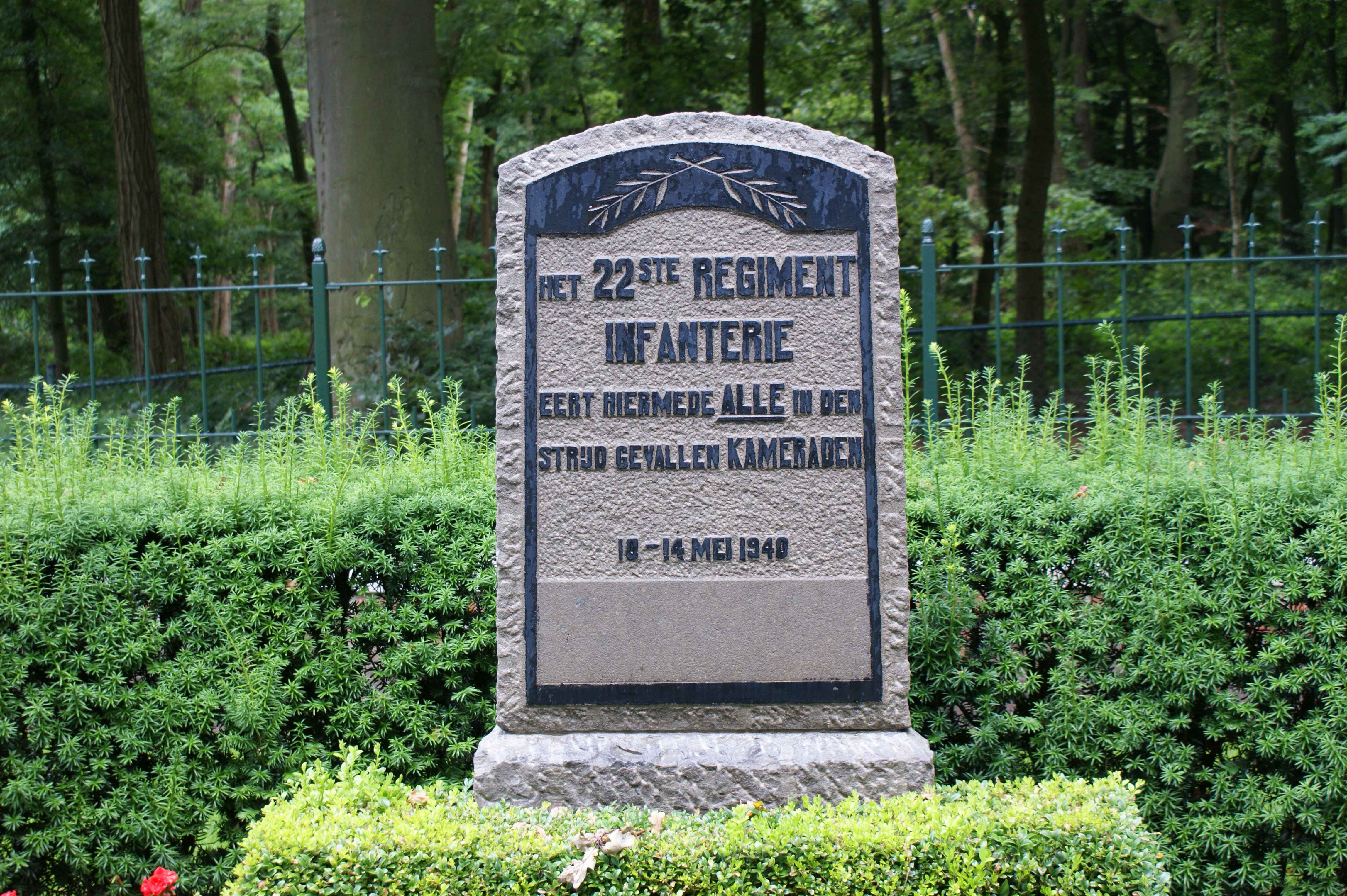 Monument 22nd Infantery Regiment (22 Regiment Infanterie). Military Cemetery Grebbeberg, Rhenen, The Netherlands